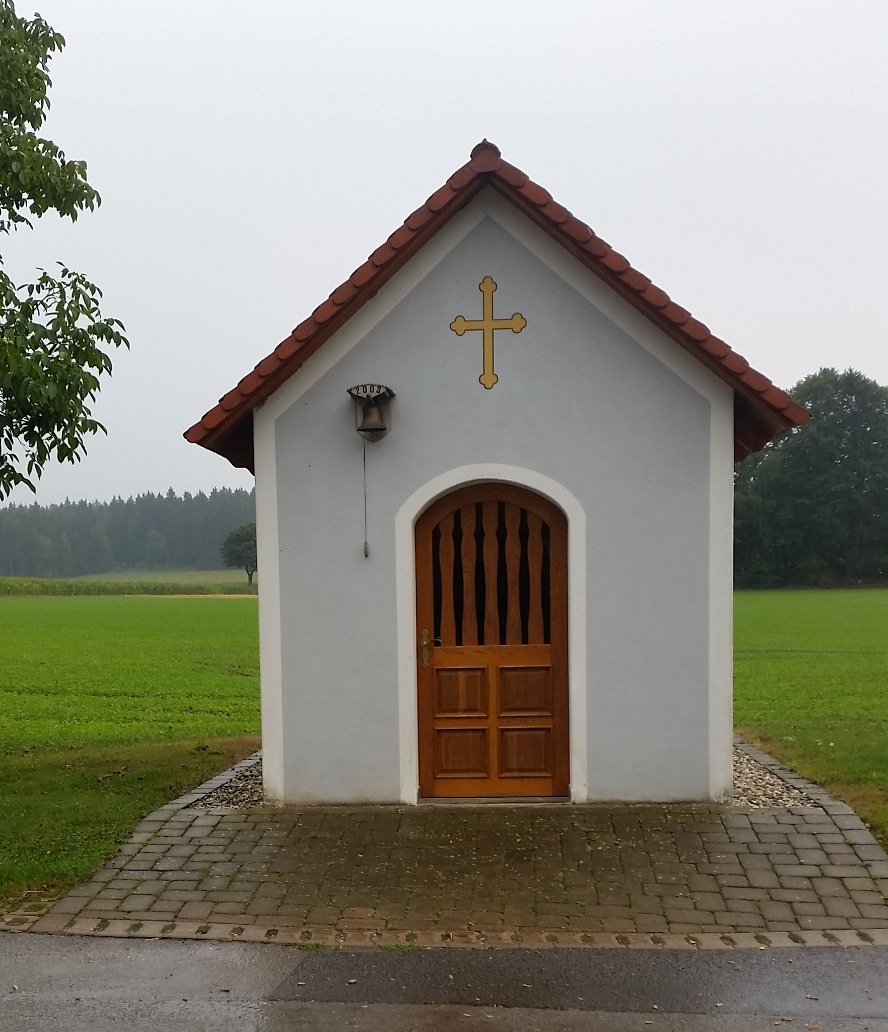 Wegkapelle St. Maria in Brenzenwang, LauterhofenThis is a photograph of an architectural monument.